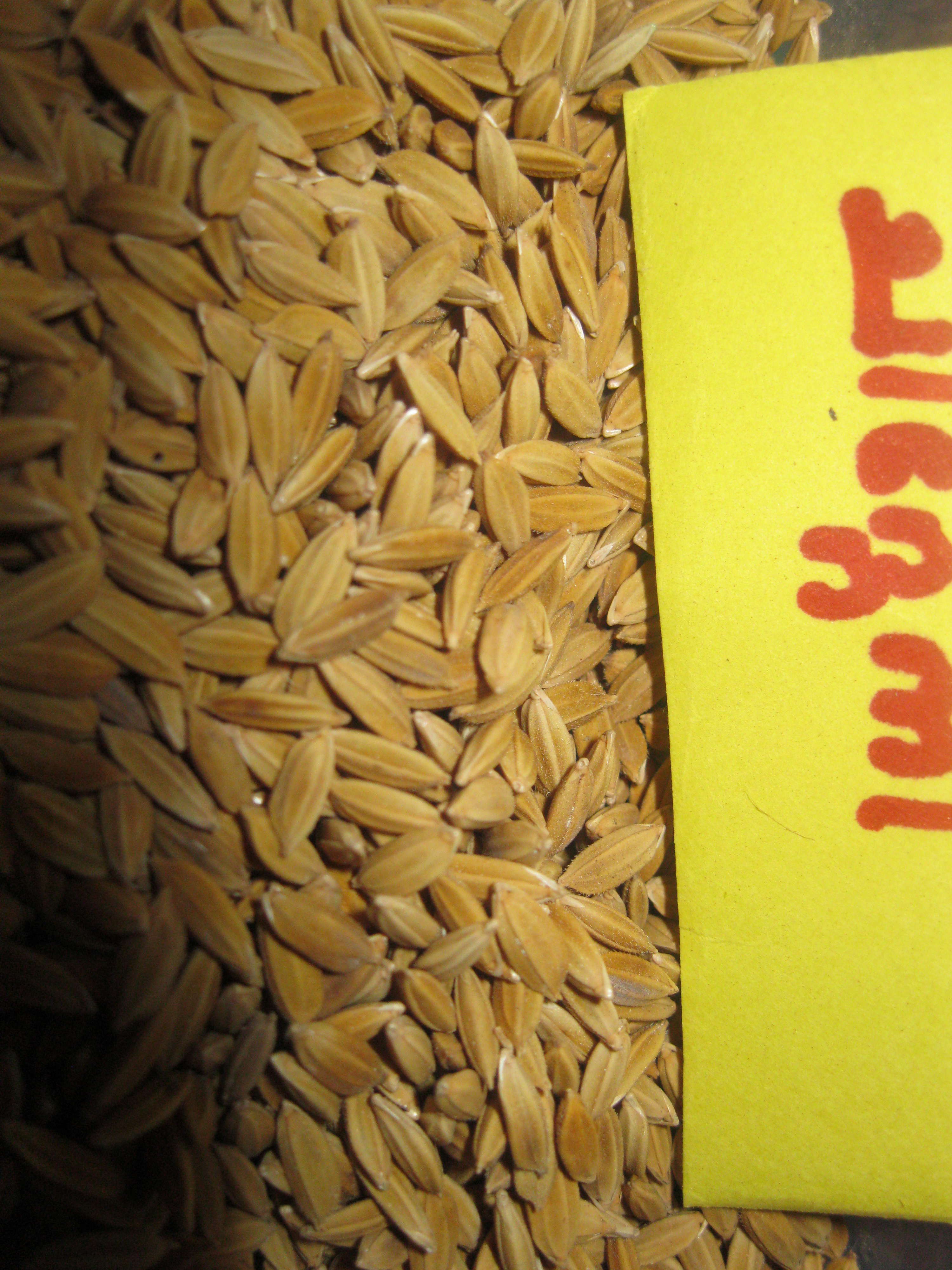 chitteni, a special type of paddy seed in Kerala, India